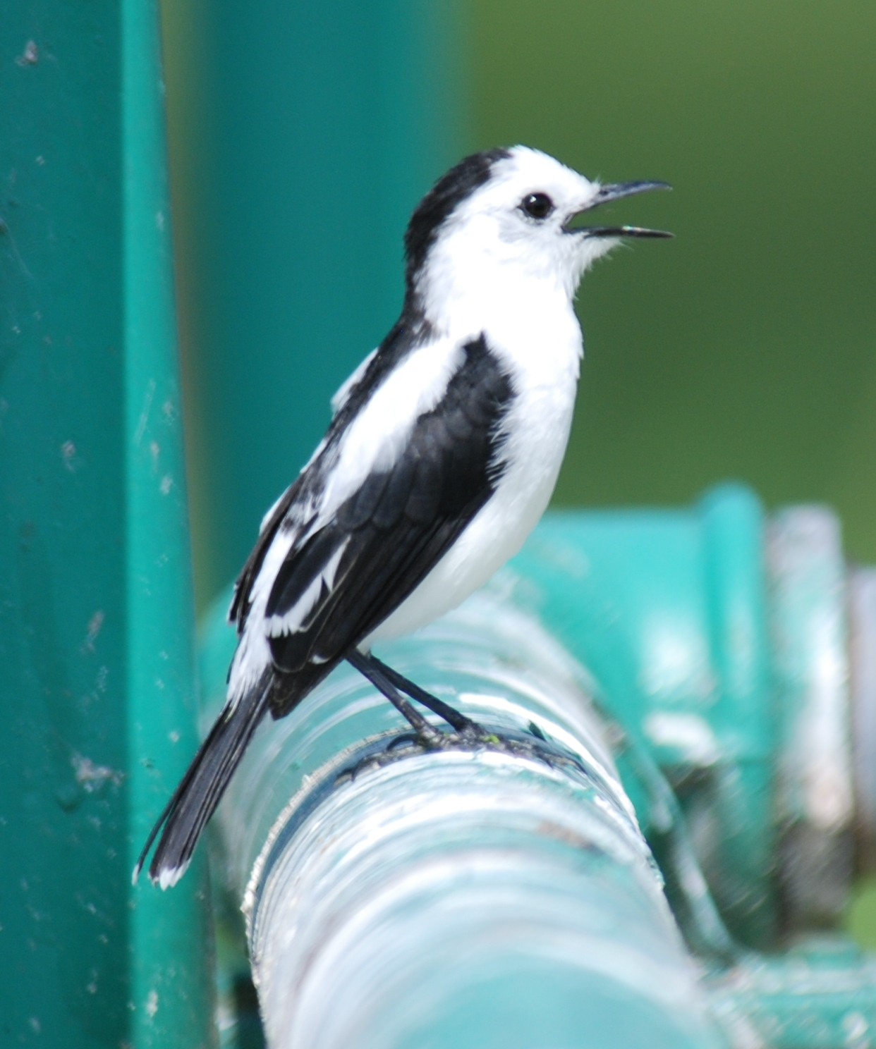 Saucy little Pied Water Tyrant see at a water treatment center in Trinidad.